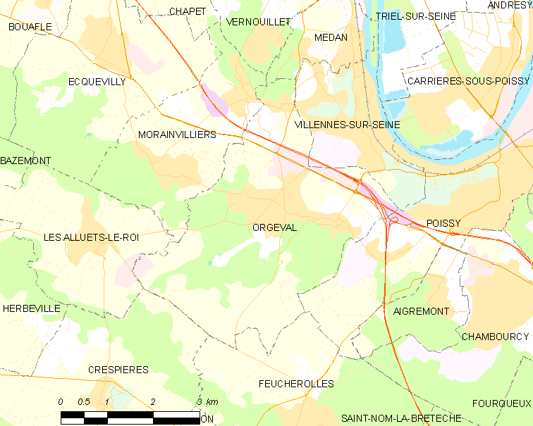 Map of French municipality Orgeval